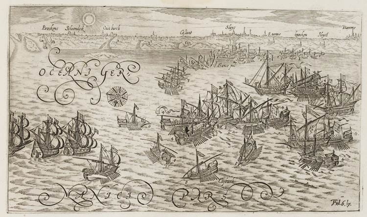 Battle of Sluis, may 26 1603.